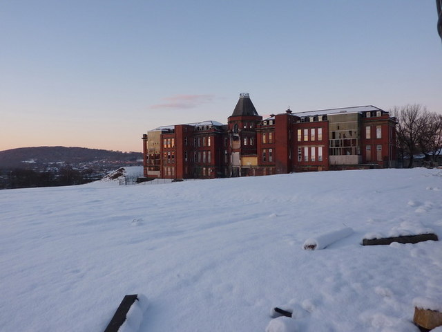 The only bit that's left The only building which remains of Blackburn Royal Infirmary. They even demolished the original building which stood to the left of picture. It is proposed to convert the building to apartments and build houses on the rest of the site